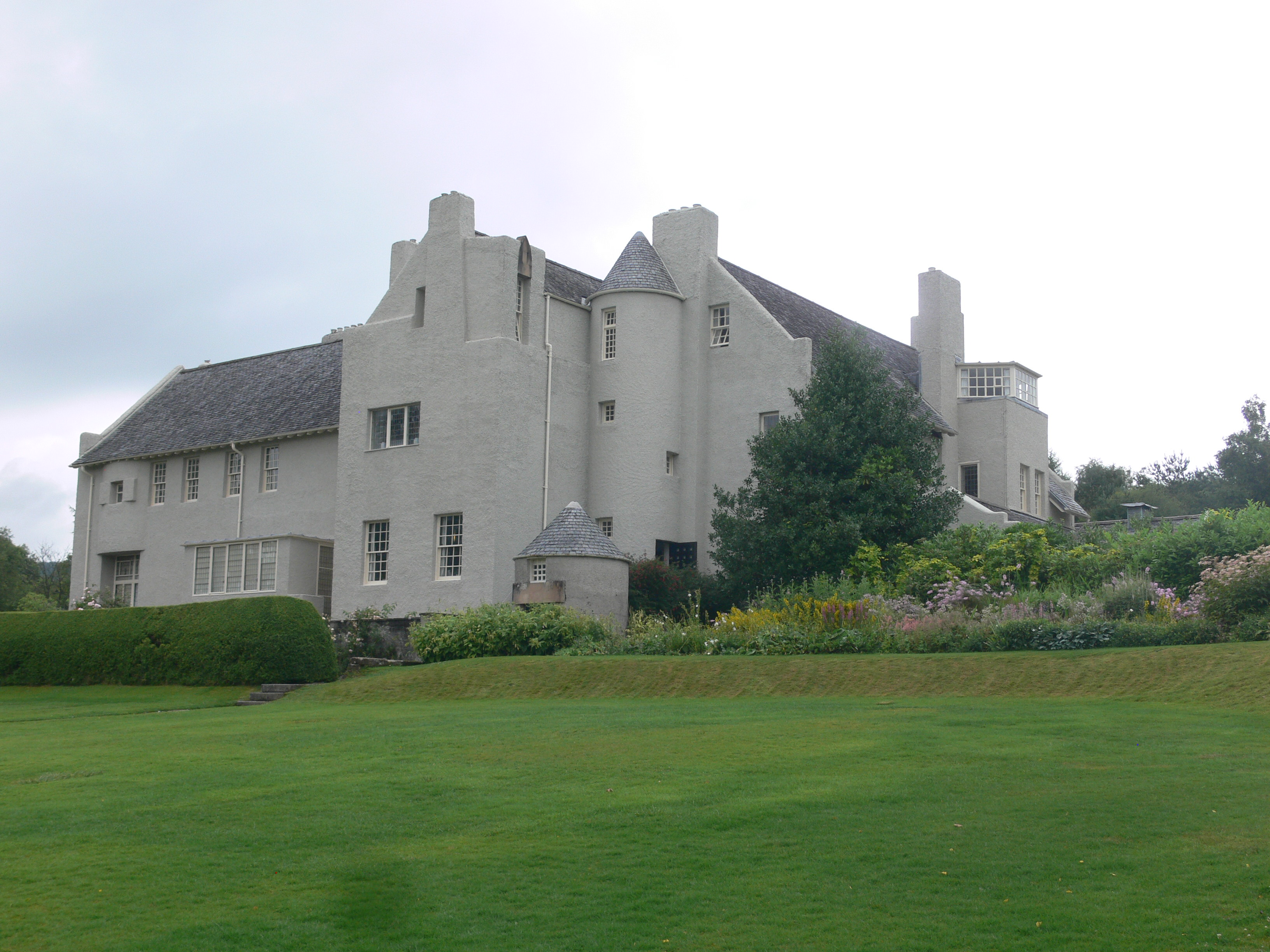 The Hill House